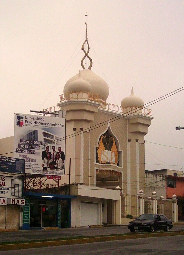 Temple of La Luz del Mundo in Xalapa, Veracruz, México.